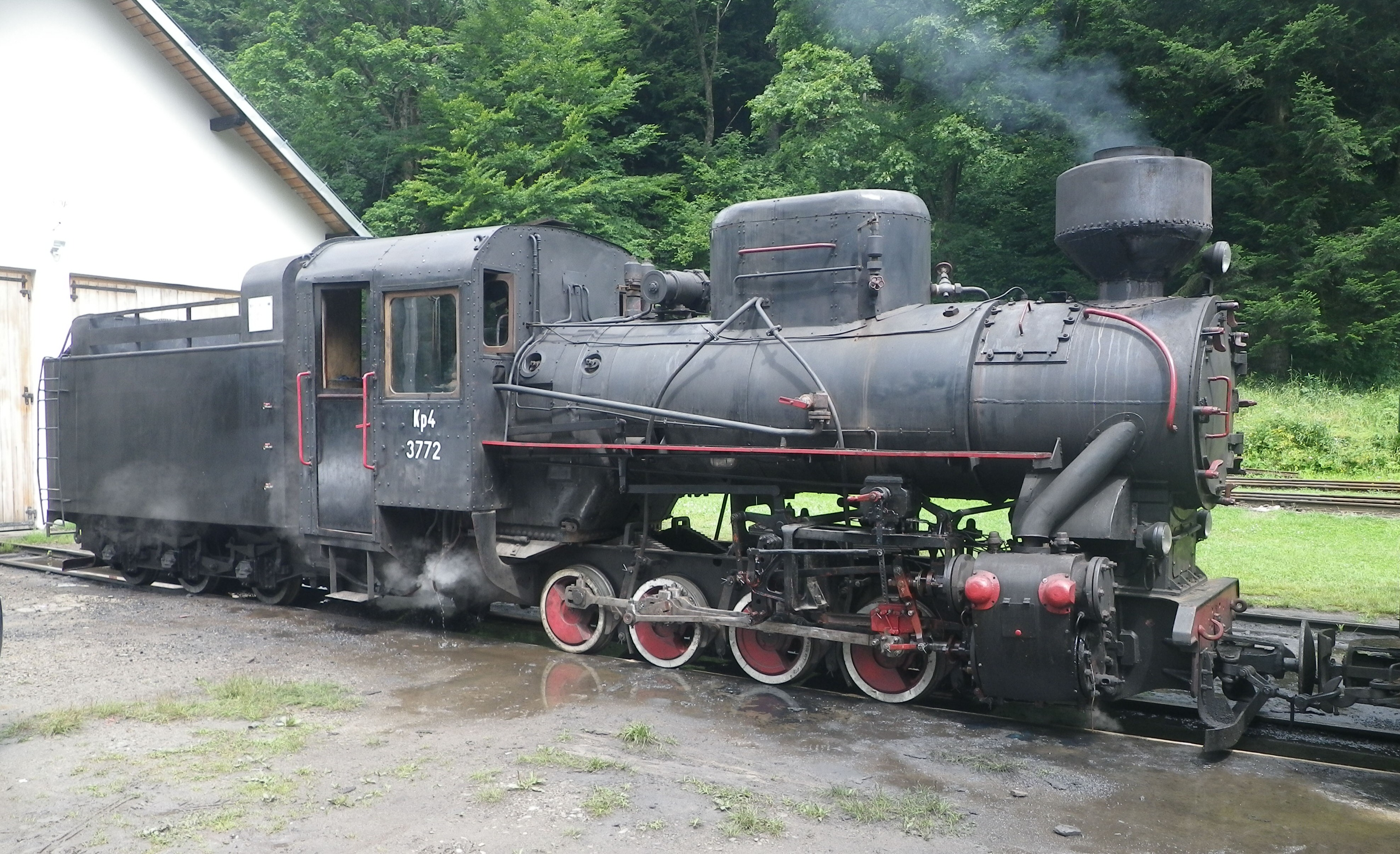 Kp4-3772 locomotive of Bieszczady Forest Railway at Majdan station